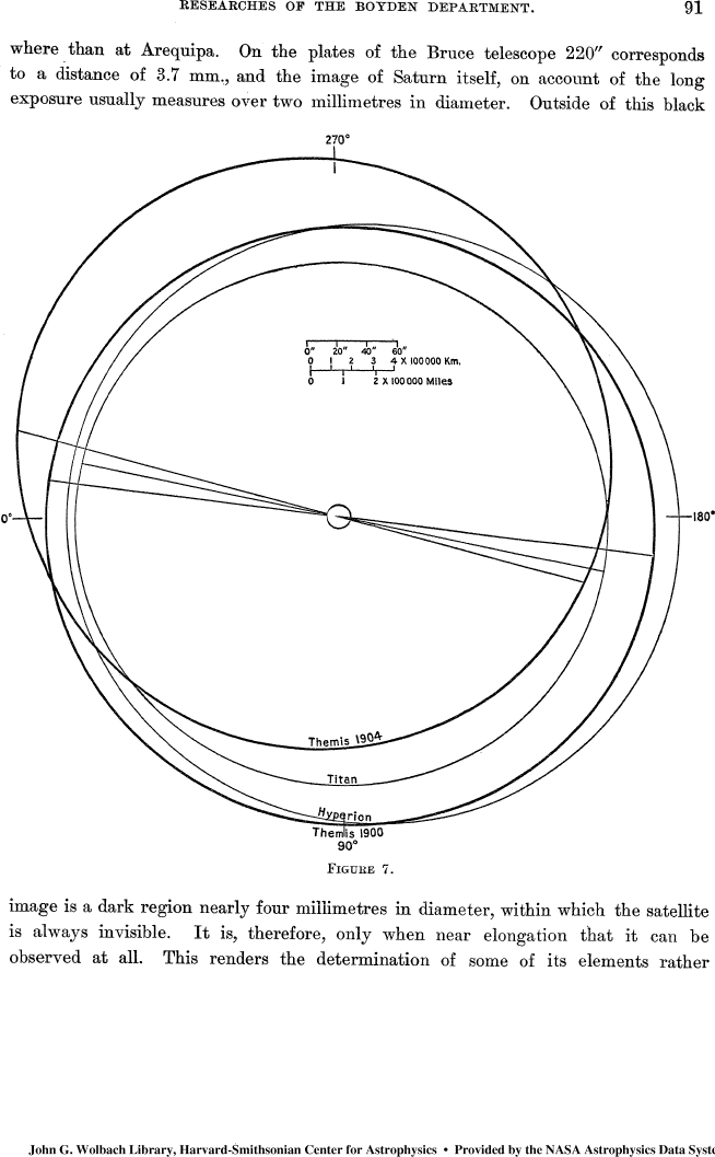 Two possible orbits for the non-existent "tenth satellite" Themis of Saturn, as calculated by William Henry Pickering